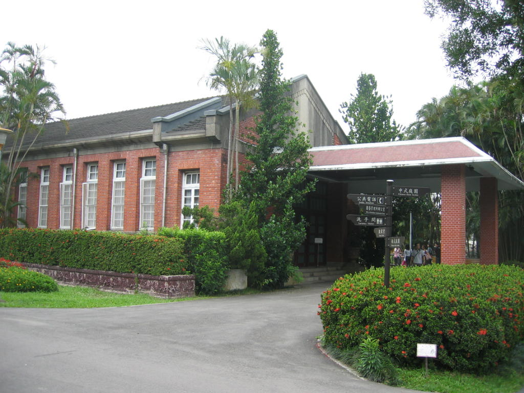 Chapel at Shilin Residence of Chiang Kai-shek, Taipei, Republic of China.